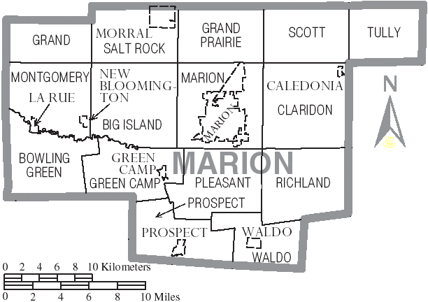 Map of Marion County, Ohio, United States with township and municipal boundaries